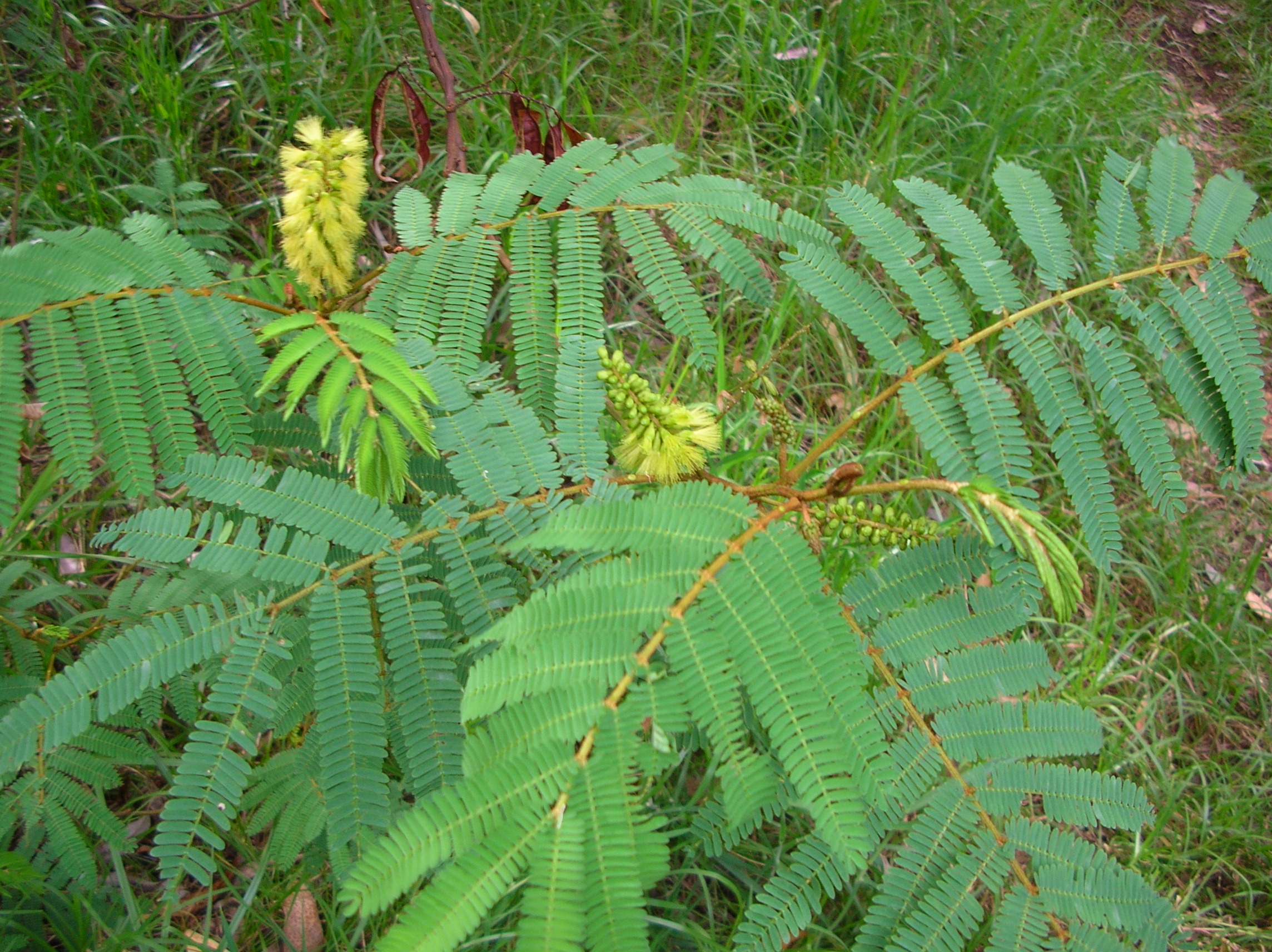 Paraserianthes lophantha subsp. montana (flowers). Location: Maui, Polipoli